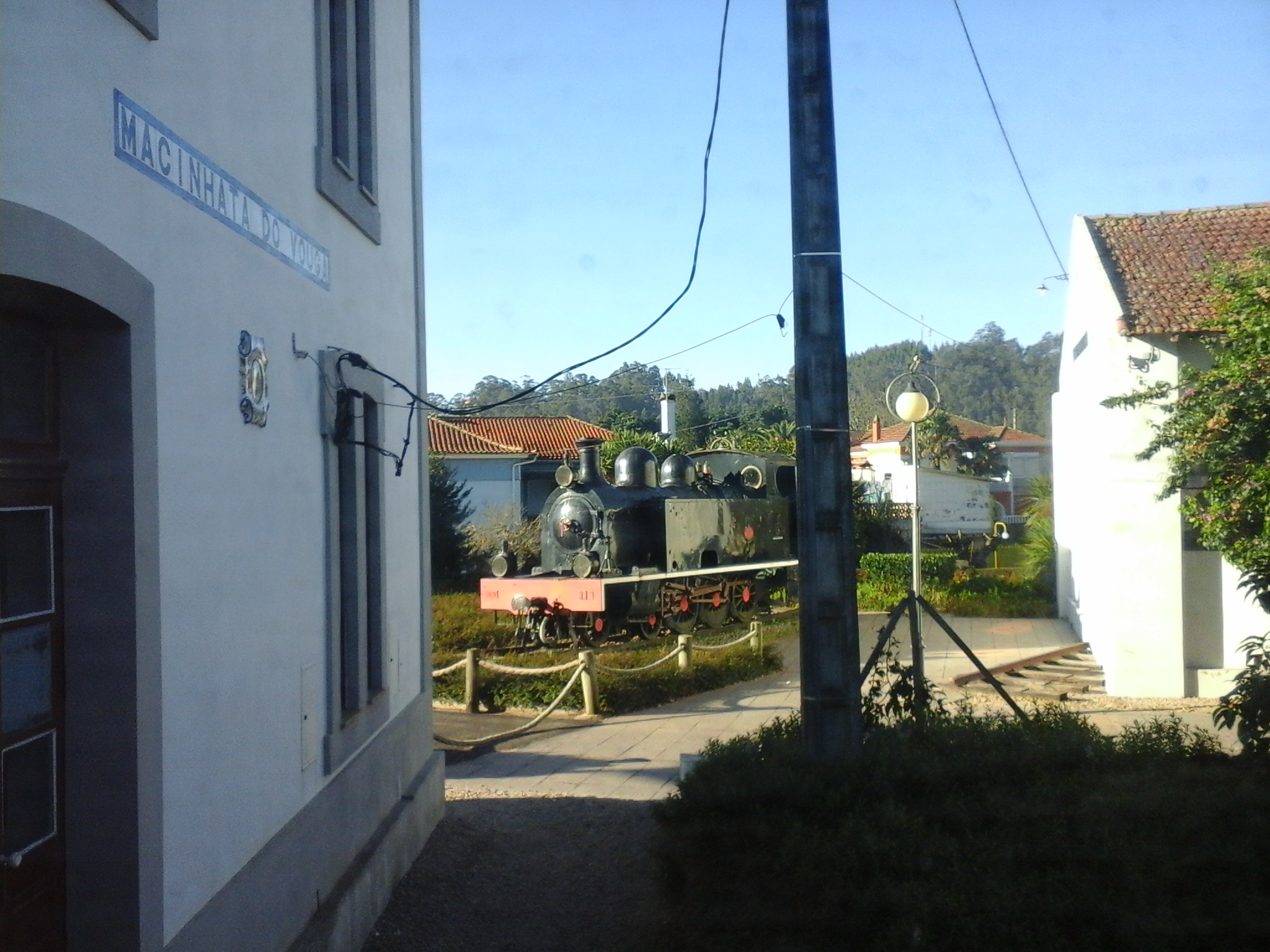 Estação Ferroviária de Macinhata do Vouga